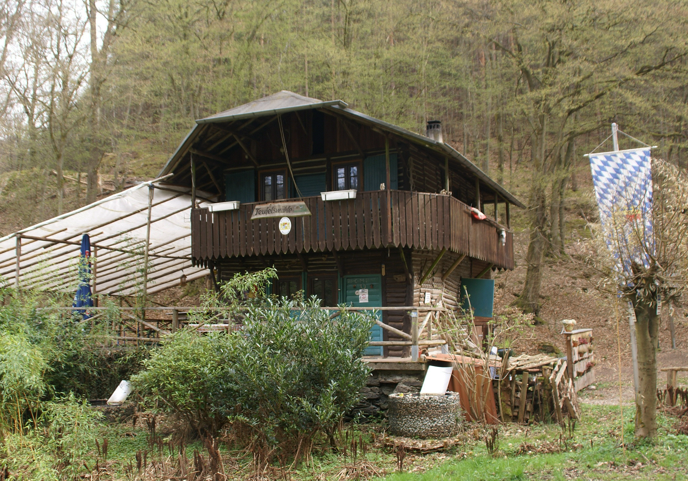 Building in Teufelsgrund near Geiselbach. The present building is not identical to one of the earlier mills at this locality